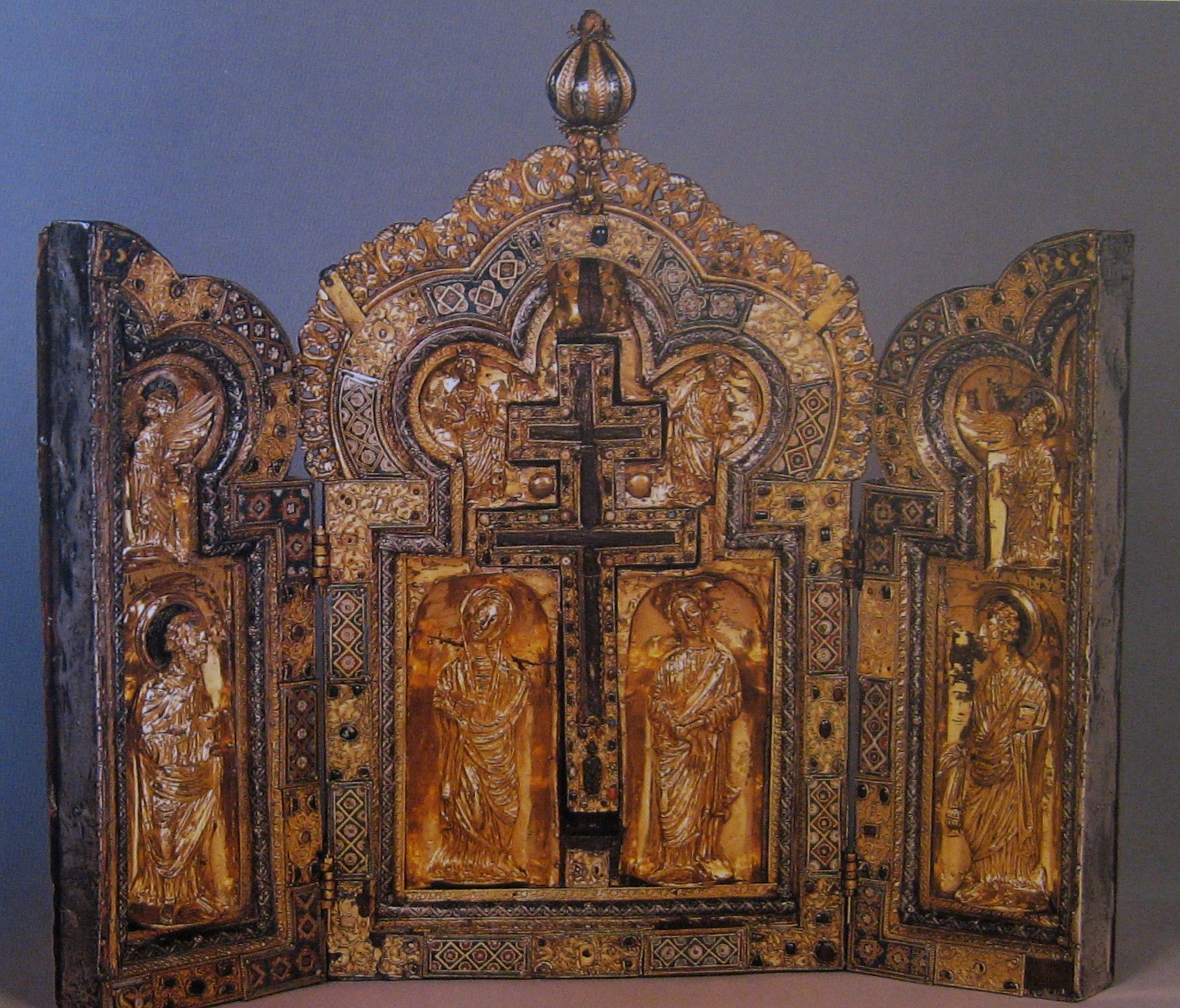 triptyque of the abbey of Florennes; Mosan art; gilded silver, enamels, niello, email brun; height 51 cm, width (opened) 57 cm. Royal Museums of art and history, Brussels